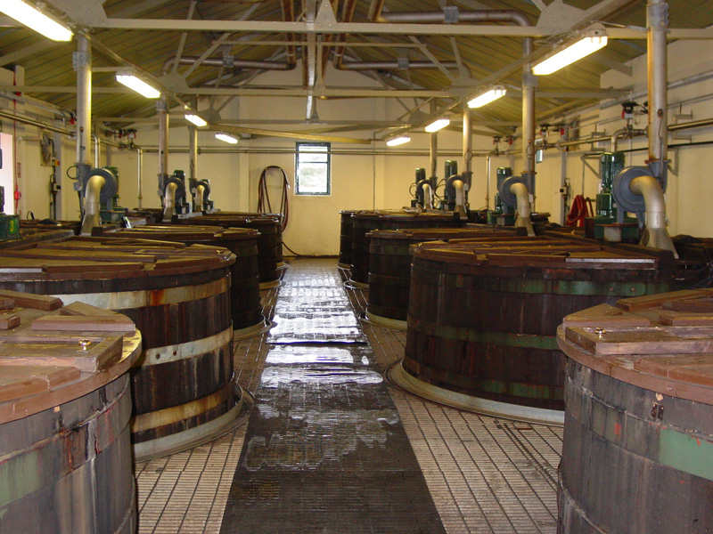 Brewing vessels containing wash (washbacks), for Single Malt Scotch production.